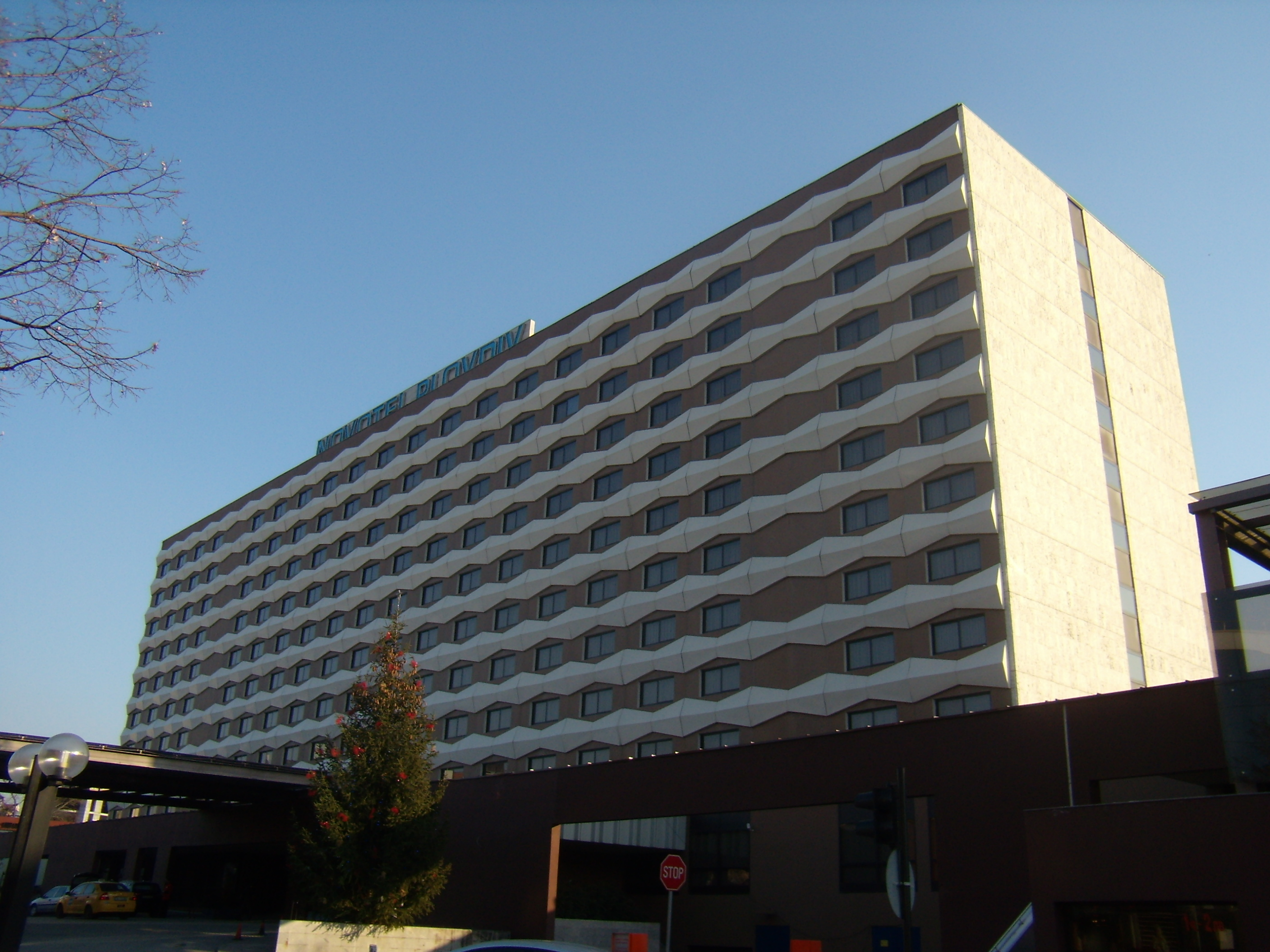 Novotel Plovdiv